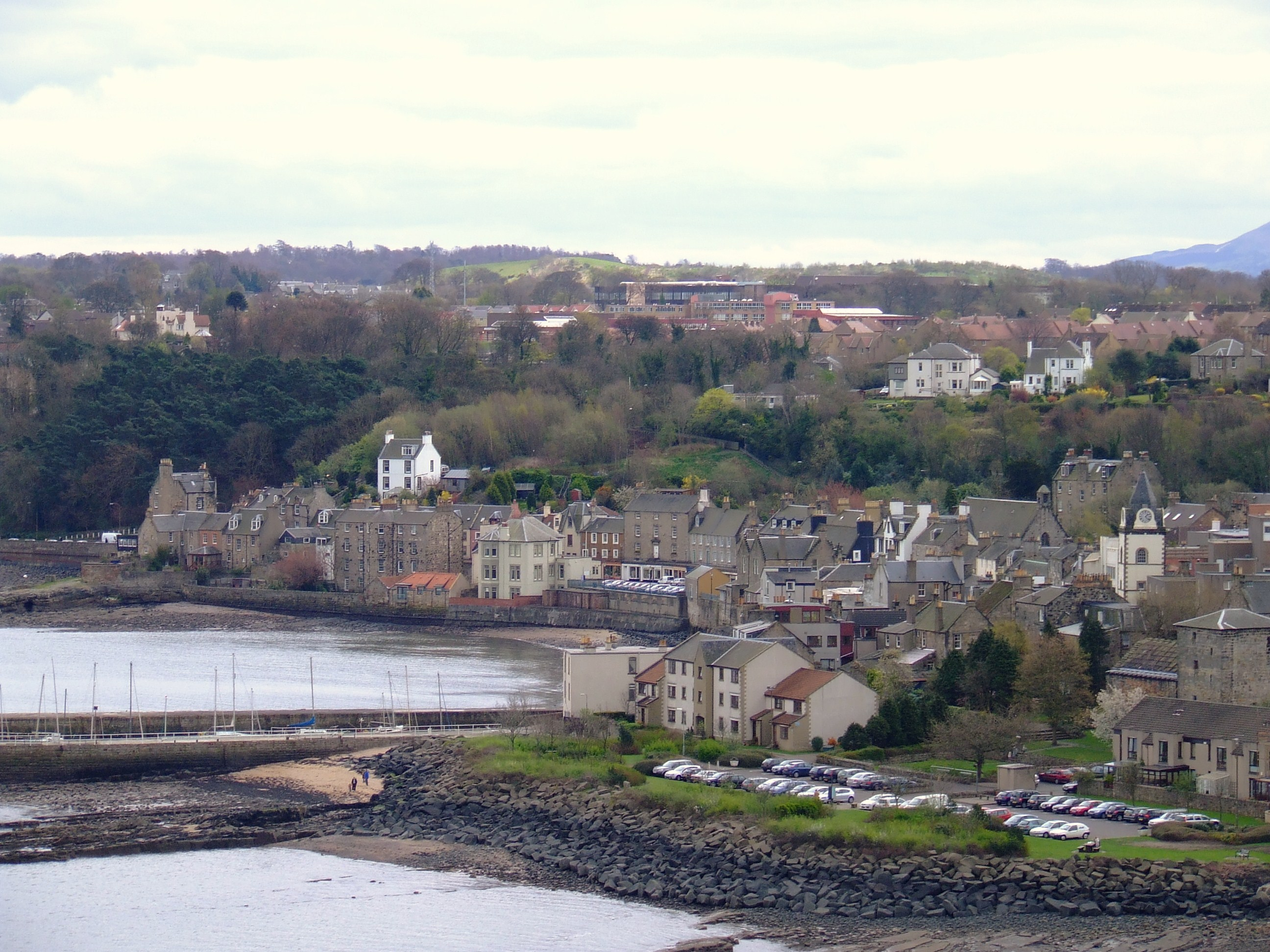 A view of South Queensferry, Scotland, from the Forth Road Bridge.